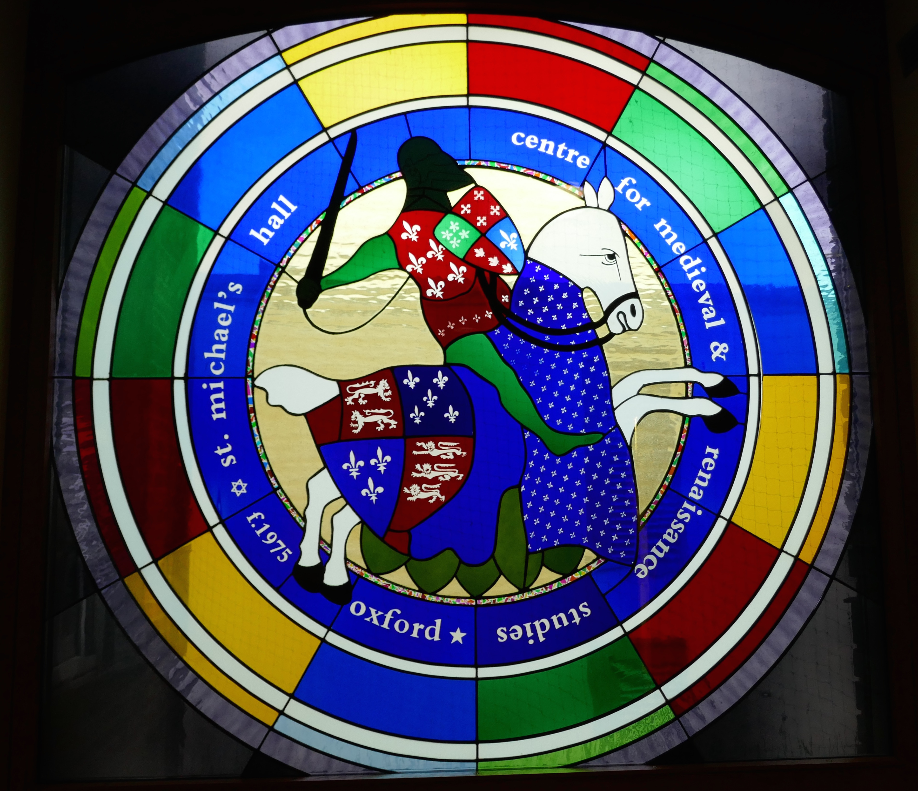 This stained glass window depicts the logo of the Centre for Medieval and Renaissance Studies.